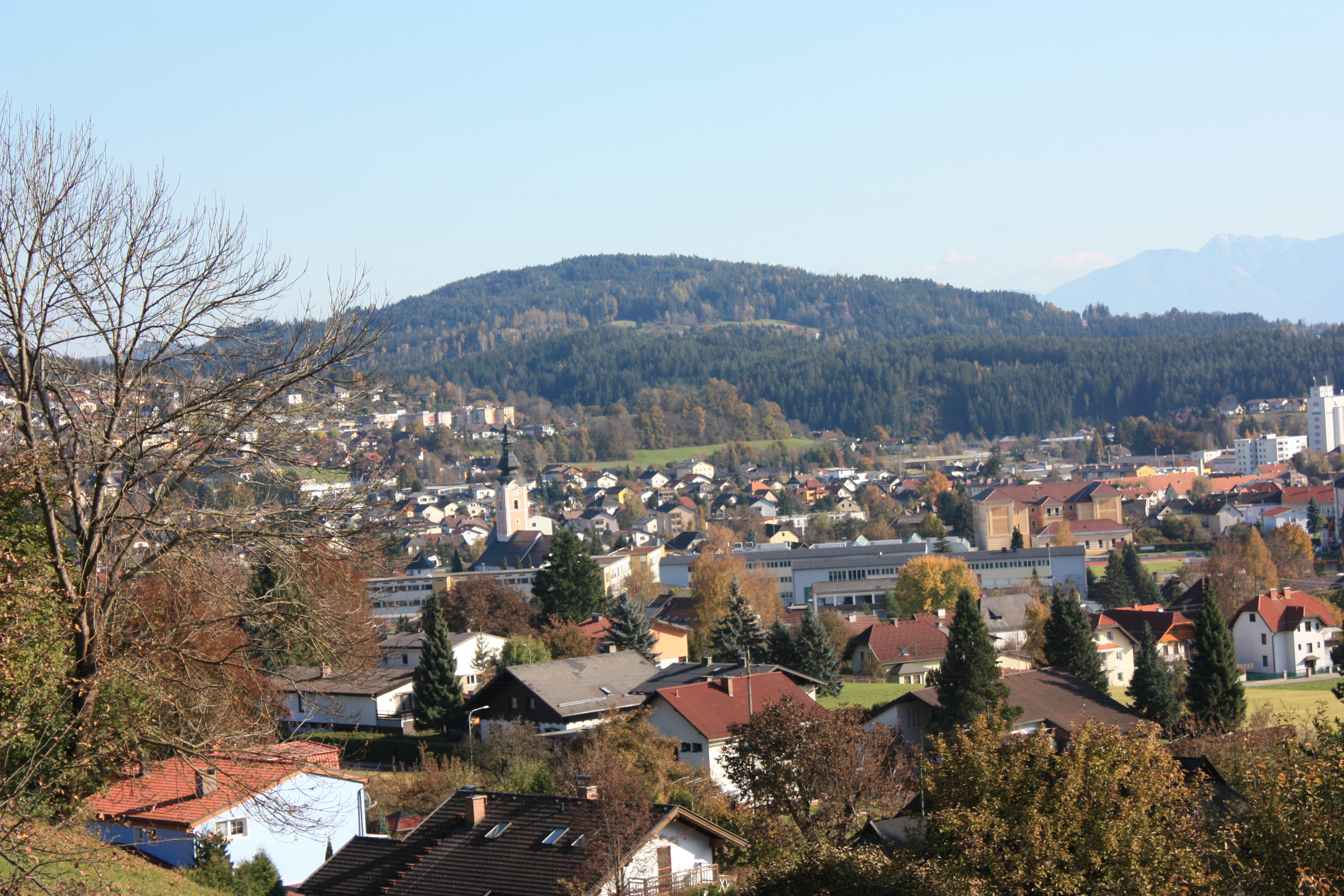 View to Feldkirchen Community:Feldkirchen in Kärnten